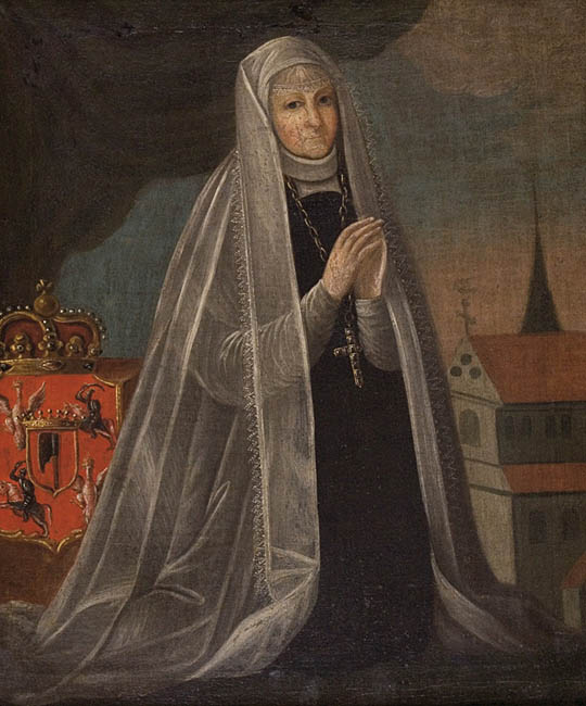 Elżbieta z Pileckich Granowska (1372-1420)